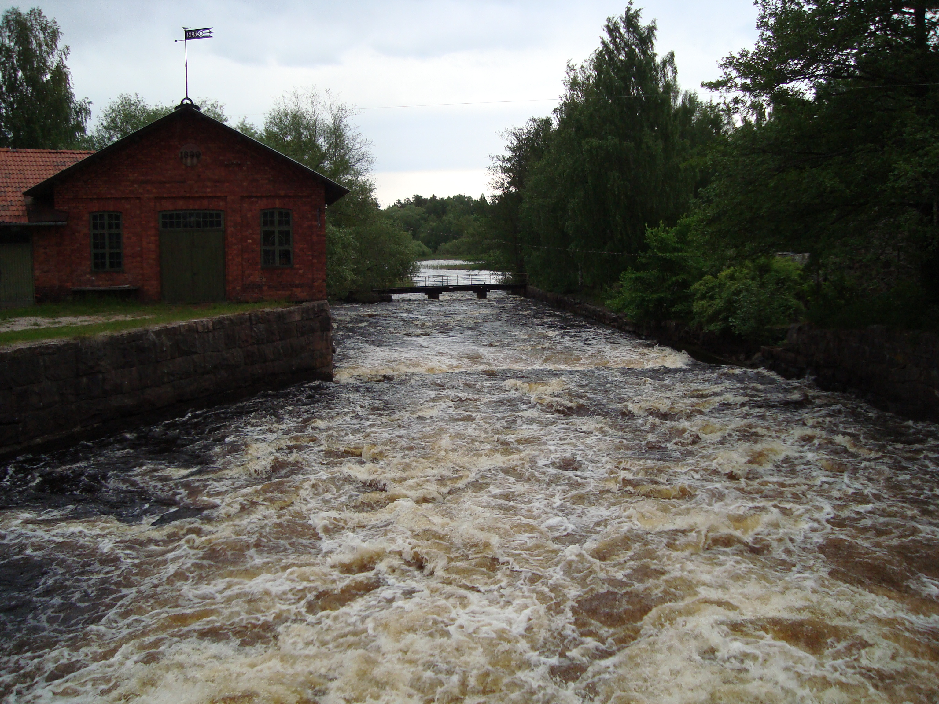 Old iron works of Forsbacka, Gävle Municipality, Sweden